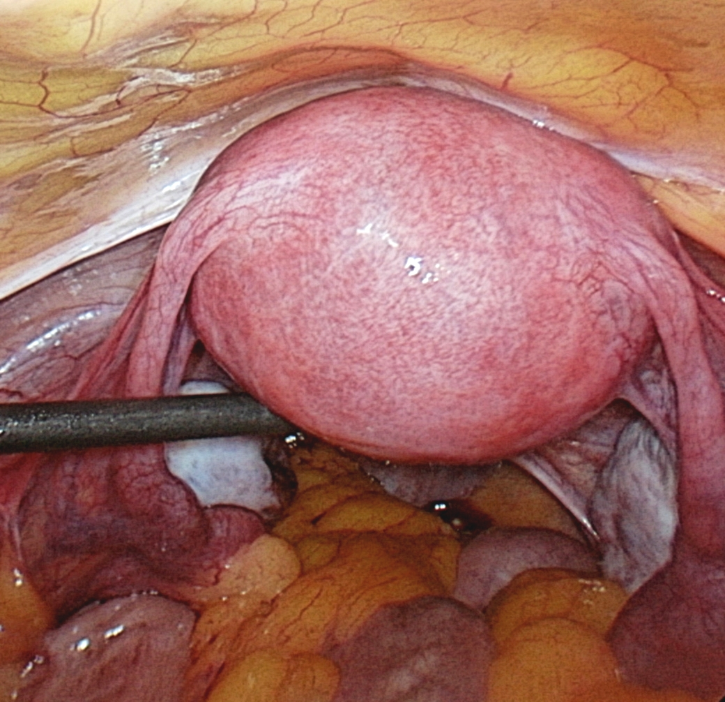 Female reproductive organs: Uterus, Fallopian tubes, ovaries (laparoscopic view)